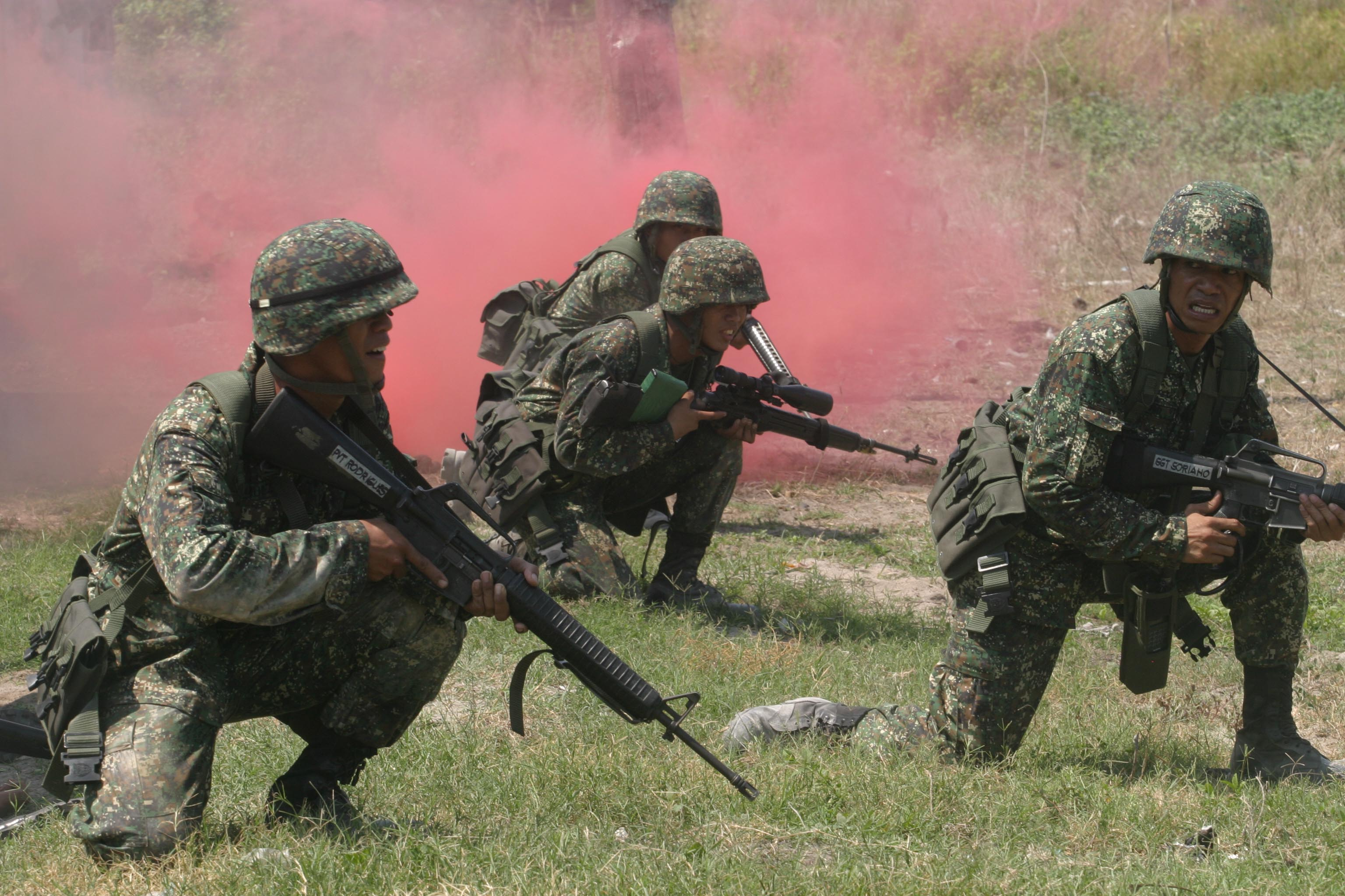 Philippine Marines with 28th Company 8th Marine Battalion Landing Team, push forward after splashing ashore in an amphibious assault vehicle during an amphibious assault training exercise, April 14. The amphibious assault training was part of Exercise Balikatan 2009, a combined joint bilateral training exercise involving Armed Forces of the Philippines and U.S military personnel and subject mater experts. Balikatan is a Tagalog word that means "shoulder to shoulder" and characterizes the philosophy and intent of the exercise.